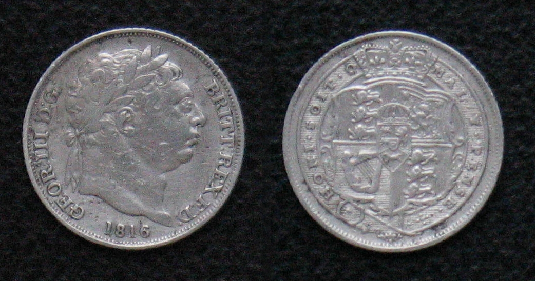 An 1816, George III, silver sixpence.